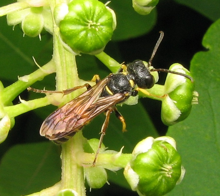 Crabronidae, Cerceris male. Horsham Trail, Montgomery County, Pennsylvania, USA.